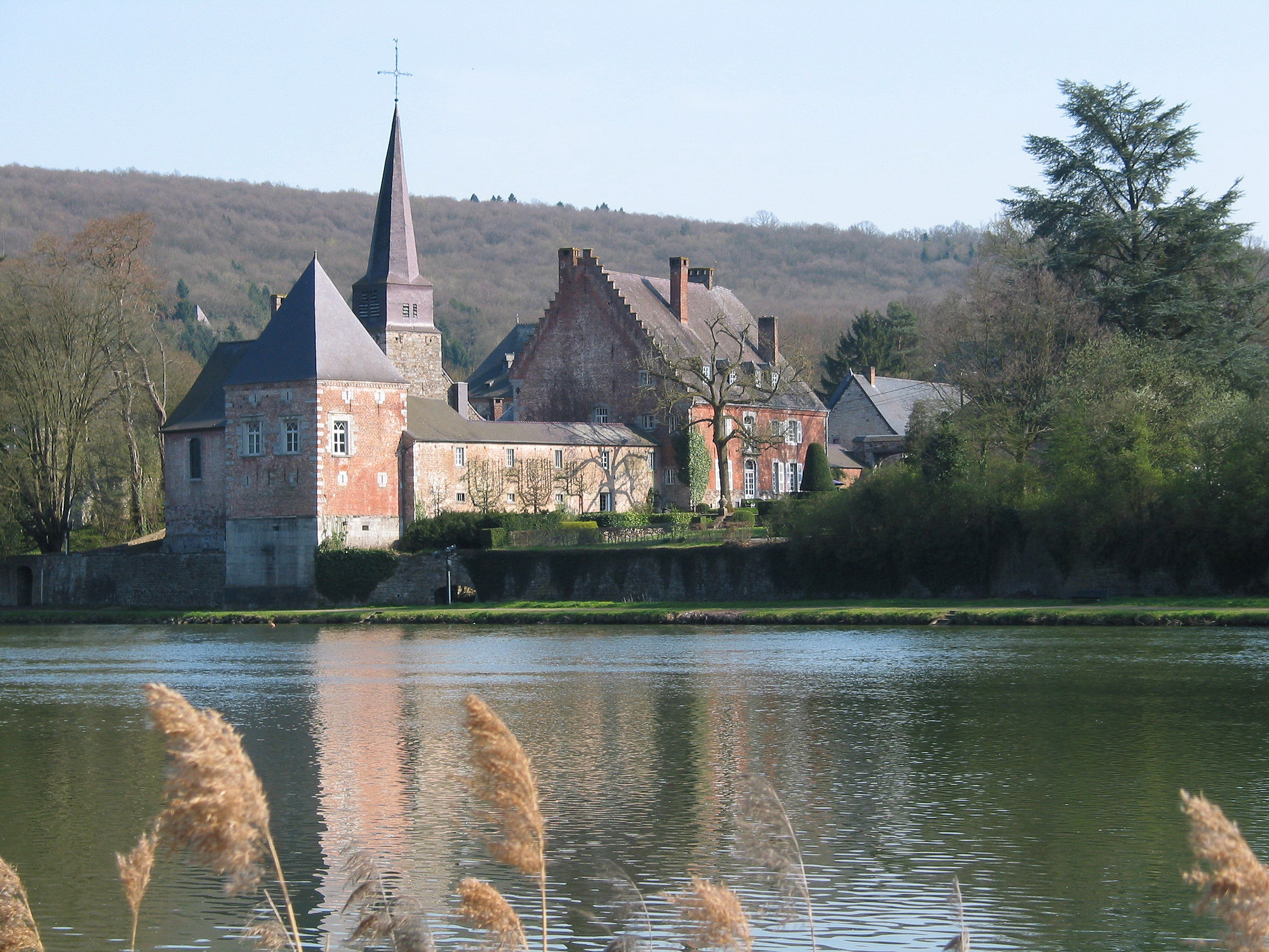 Godinne (Belgium), the village and the St. Peter church (XVII/XVIIIth centuries) alongside the Meuse river.